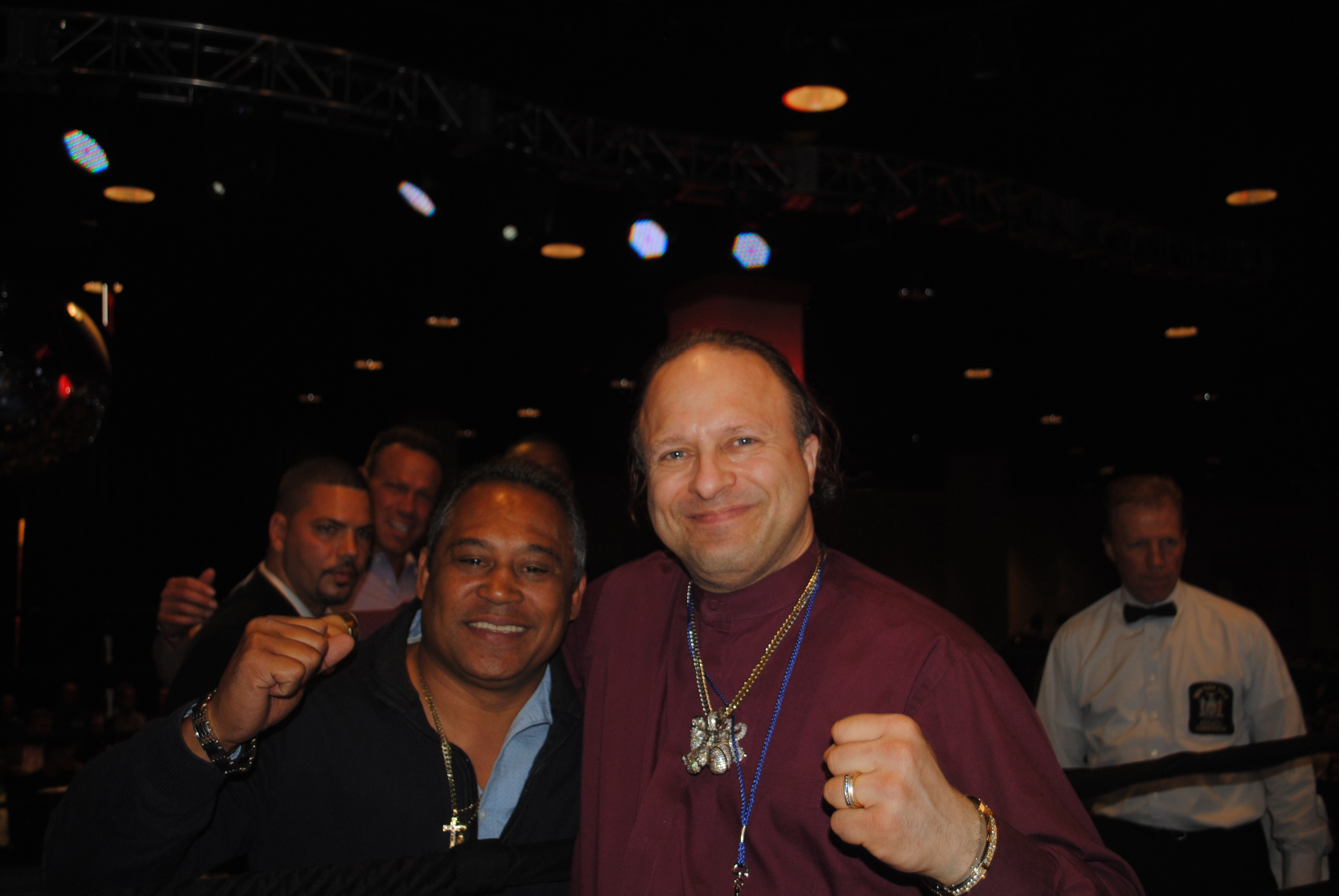 Sports writer Robert Brizel and former World Featherweight champion Juan LaPorte are ringside for the boxing card at Resorts World Casino Aqueduct Raceway, Queens, New York, May 4, 2013.